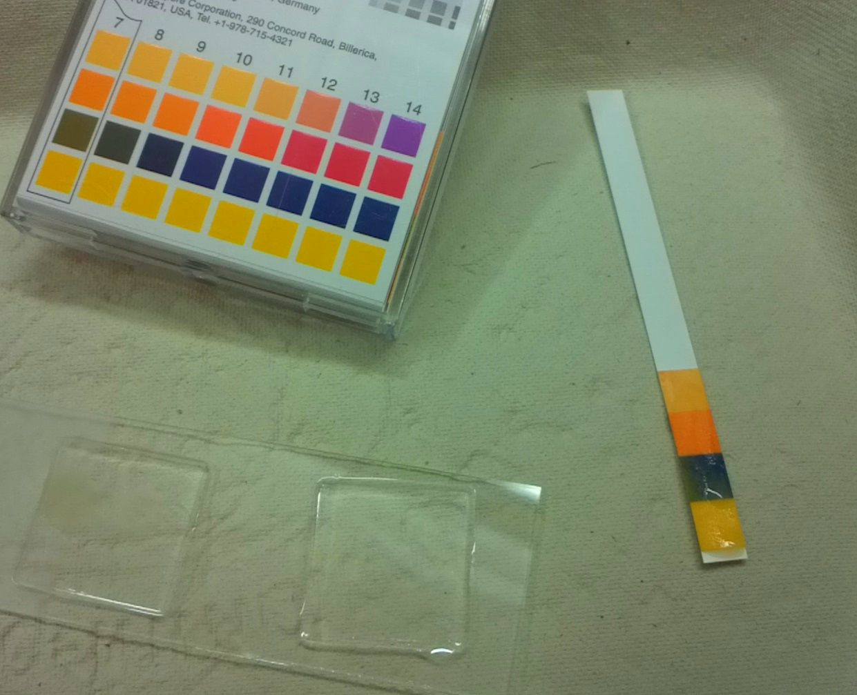 Workup of bacterial vaginosis, with a pH indicator to detect vaginal alkalinization (here showing approximately pH 8), and a microscope slide to microscopically detect clue cells.